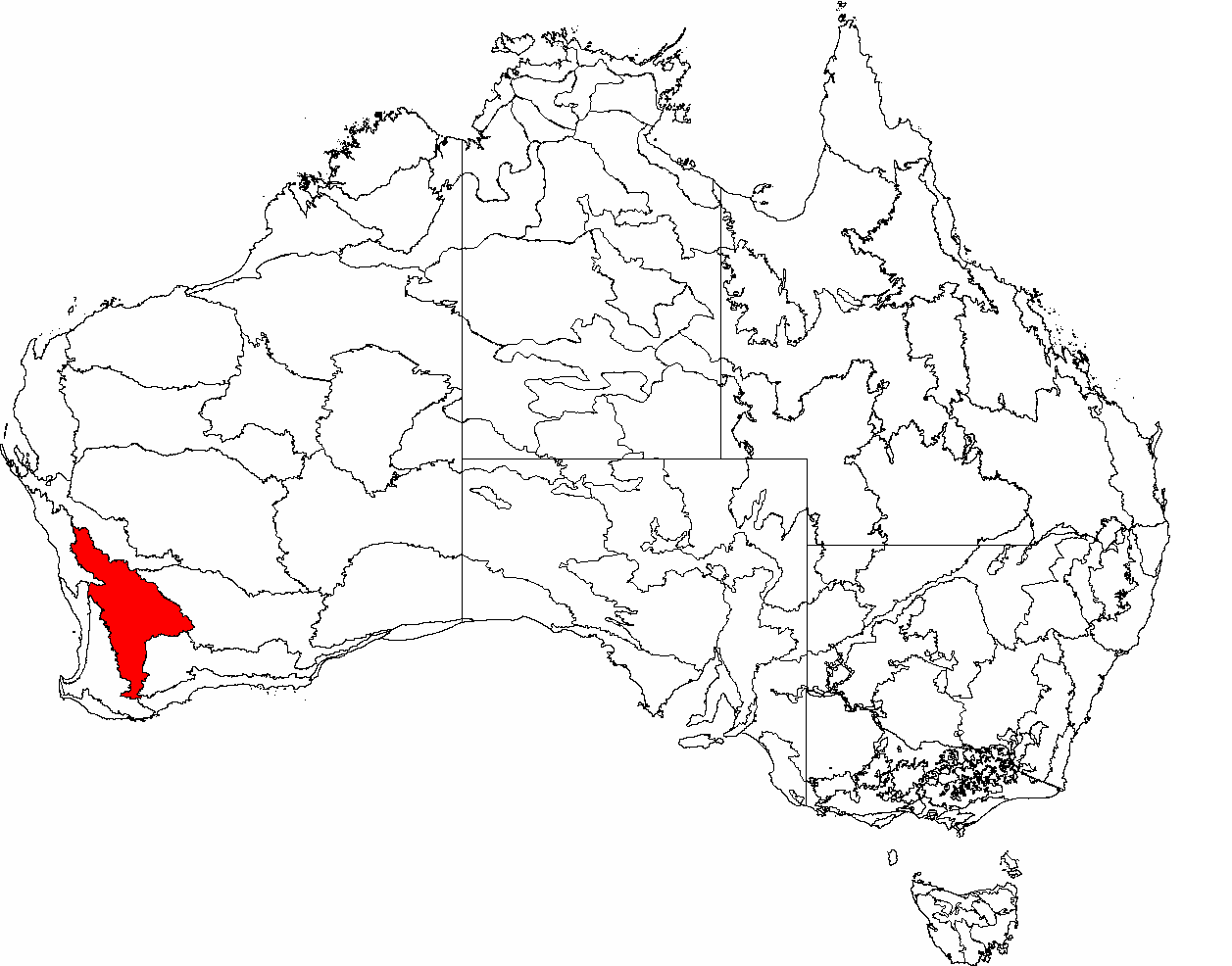 This is a map of the Interim Biogeographic Regionalisation of Australia (IBRA), with state boundaries overlaid. The Avon Wheatbelt region is shown in red.